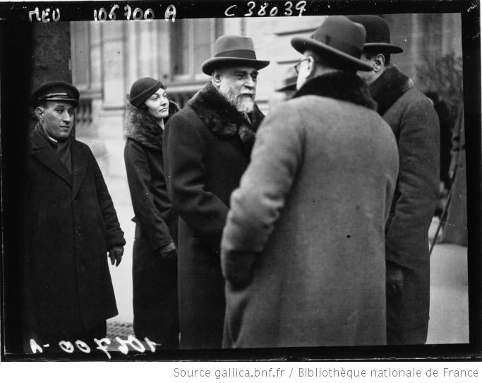 Constantin Bratianu, Romania president of the PNL (National Liberal Party).